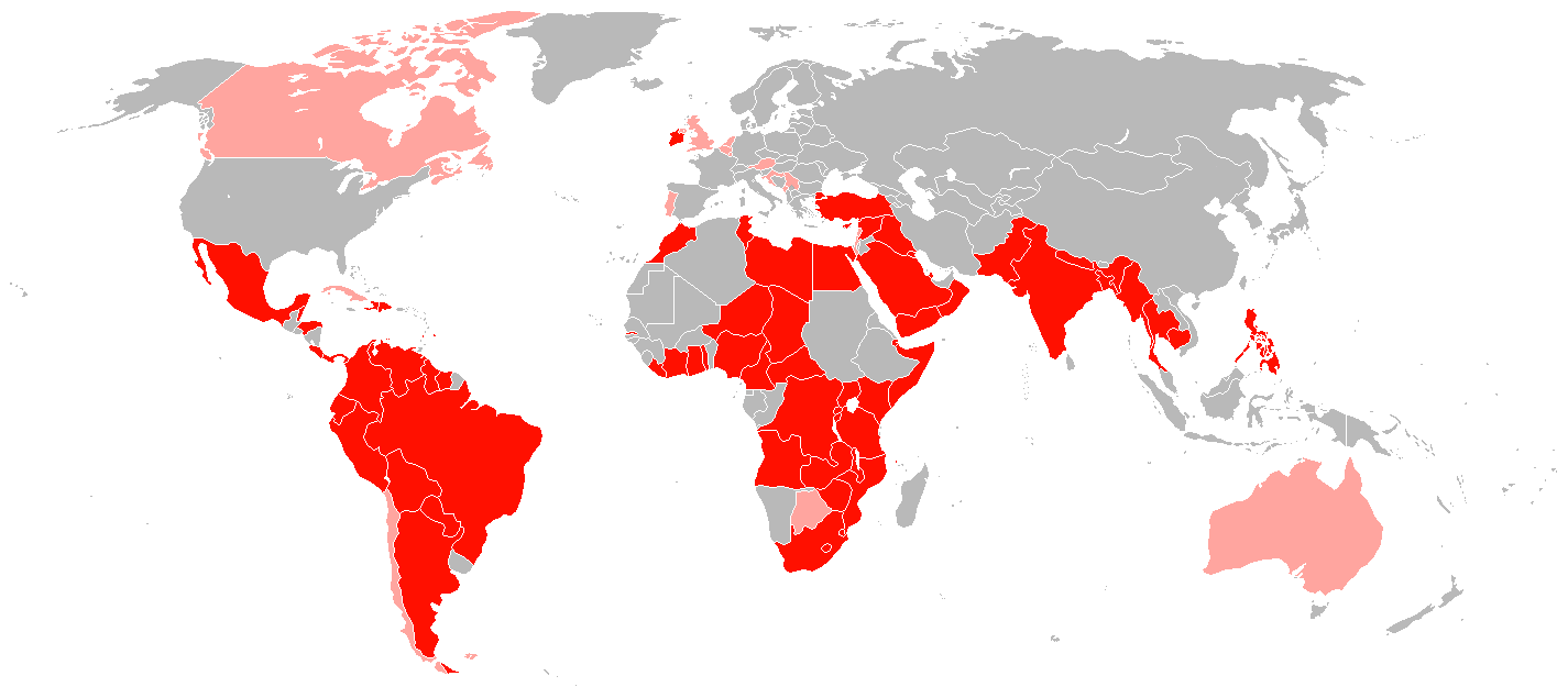 World map of operators of the FN : Bright Red = Operator Dark Red = Operator and manufacturer